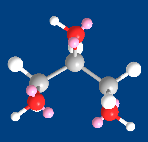 Glycerol